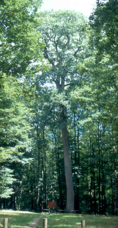 Quercus petraea 'Chêne de l'ecole', Bellême, France, 325 years old, height 40 metres, girth 440 cm.